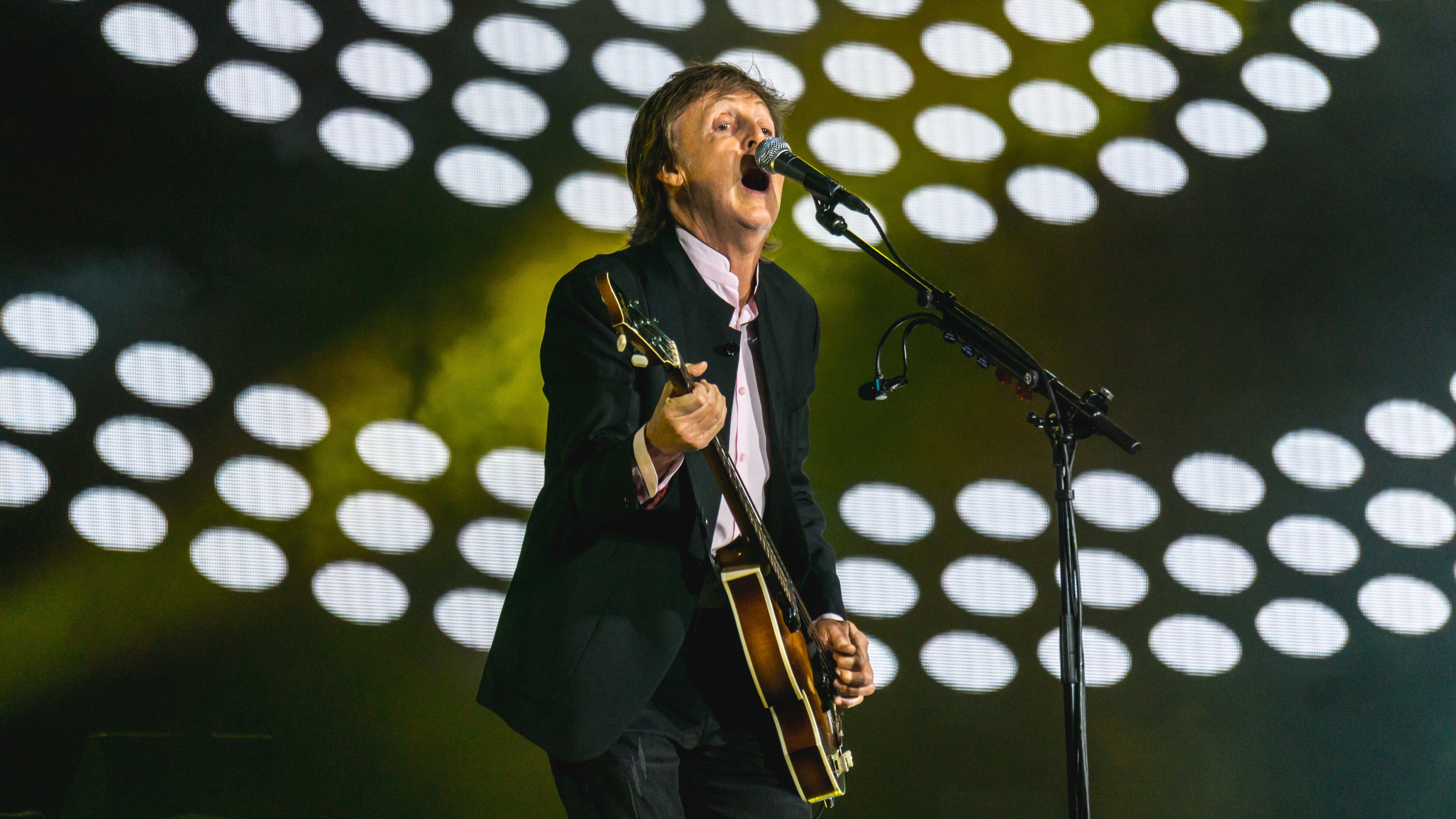 A performance by Paul McCartney on October 8, 2016 from the music festival Desert Trip, held at the Empire Polo Club